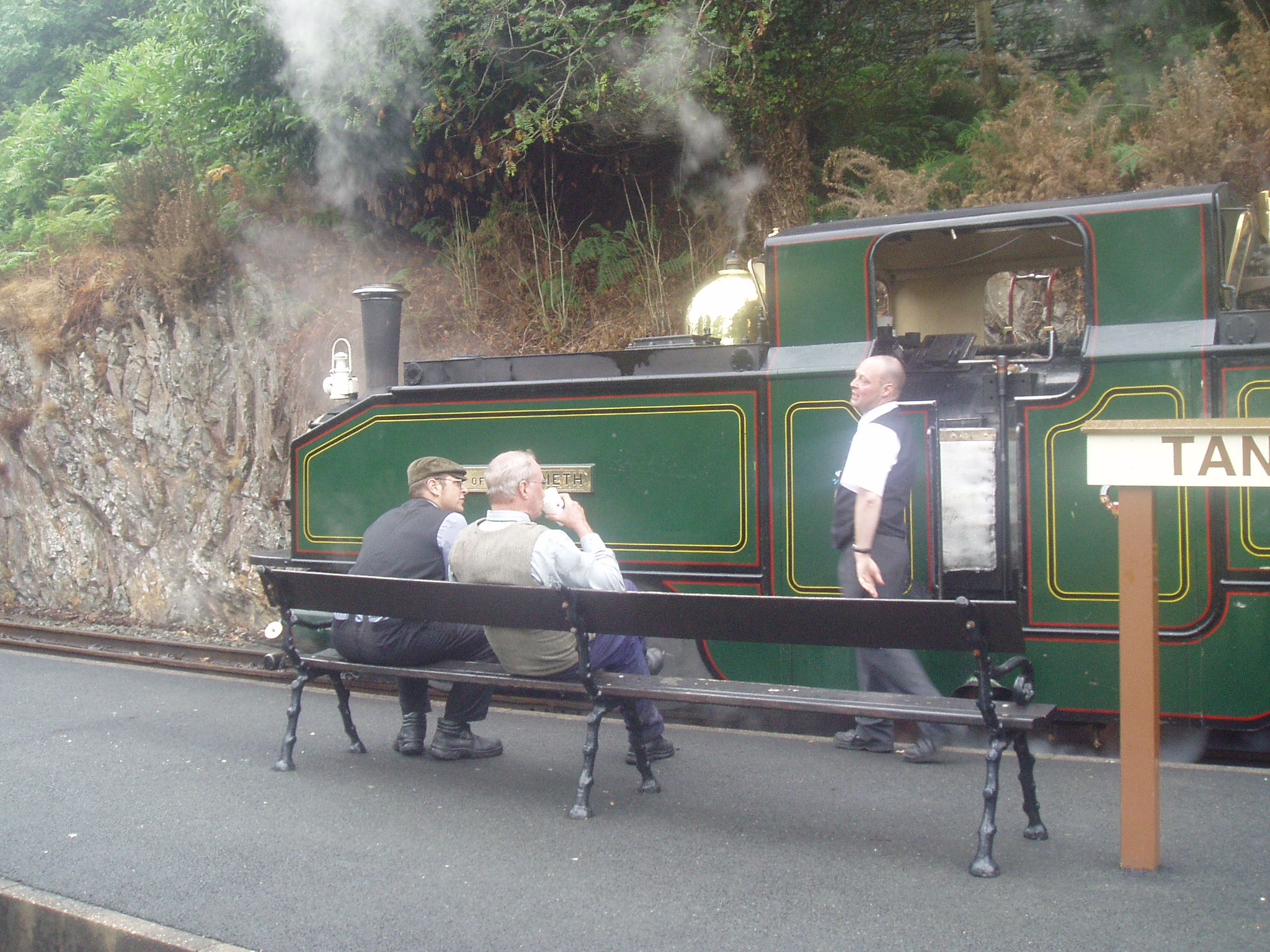 Double Fairlie Earl of Merionedd at Tanybwlch station, Ffestioniog Railway. NB only half of the engine is shown!